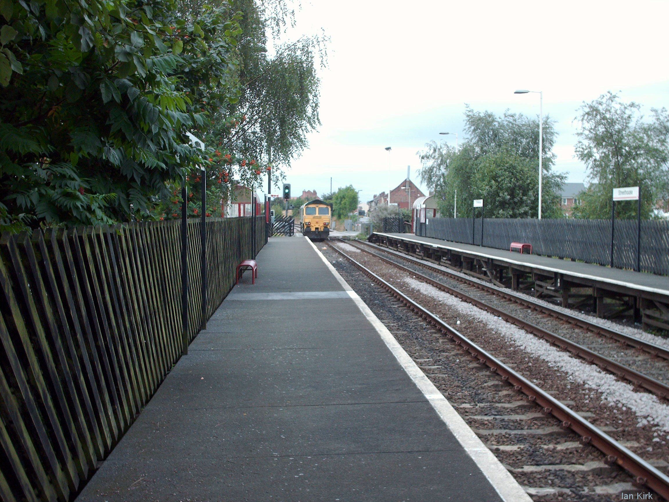 Streethouse railway station, West Yorkshire, England. 66509 passing over the level crossing.